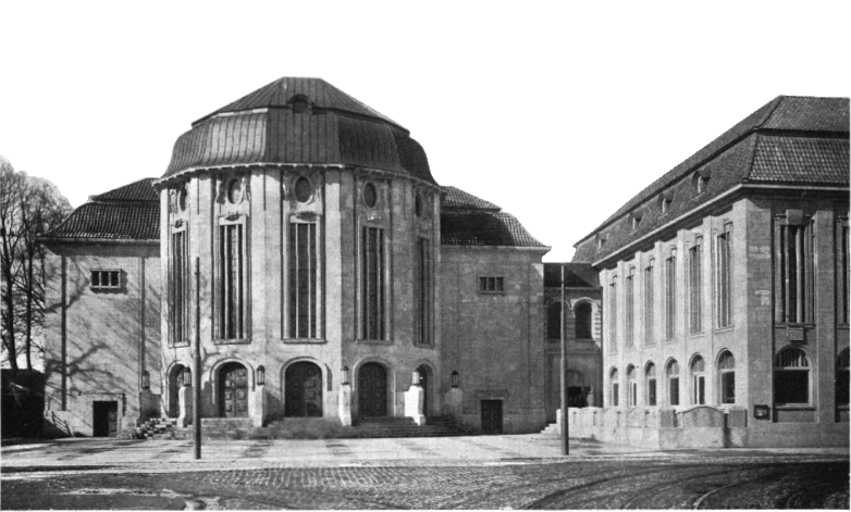 Front facade of the Stadttheater Bremerhaven (City theatre of Bremerhaven, Germany), facing the main square. The theatre was built 1909-1910 by Architect Oskar Kaufmann (1873-1956). In the centre of the photograph the main portal of the theatre is visible, the right wing was built for a museum. The left wing - though planned - was never built. In Germany, this photograph falls under "Panoramafreiheit".